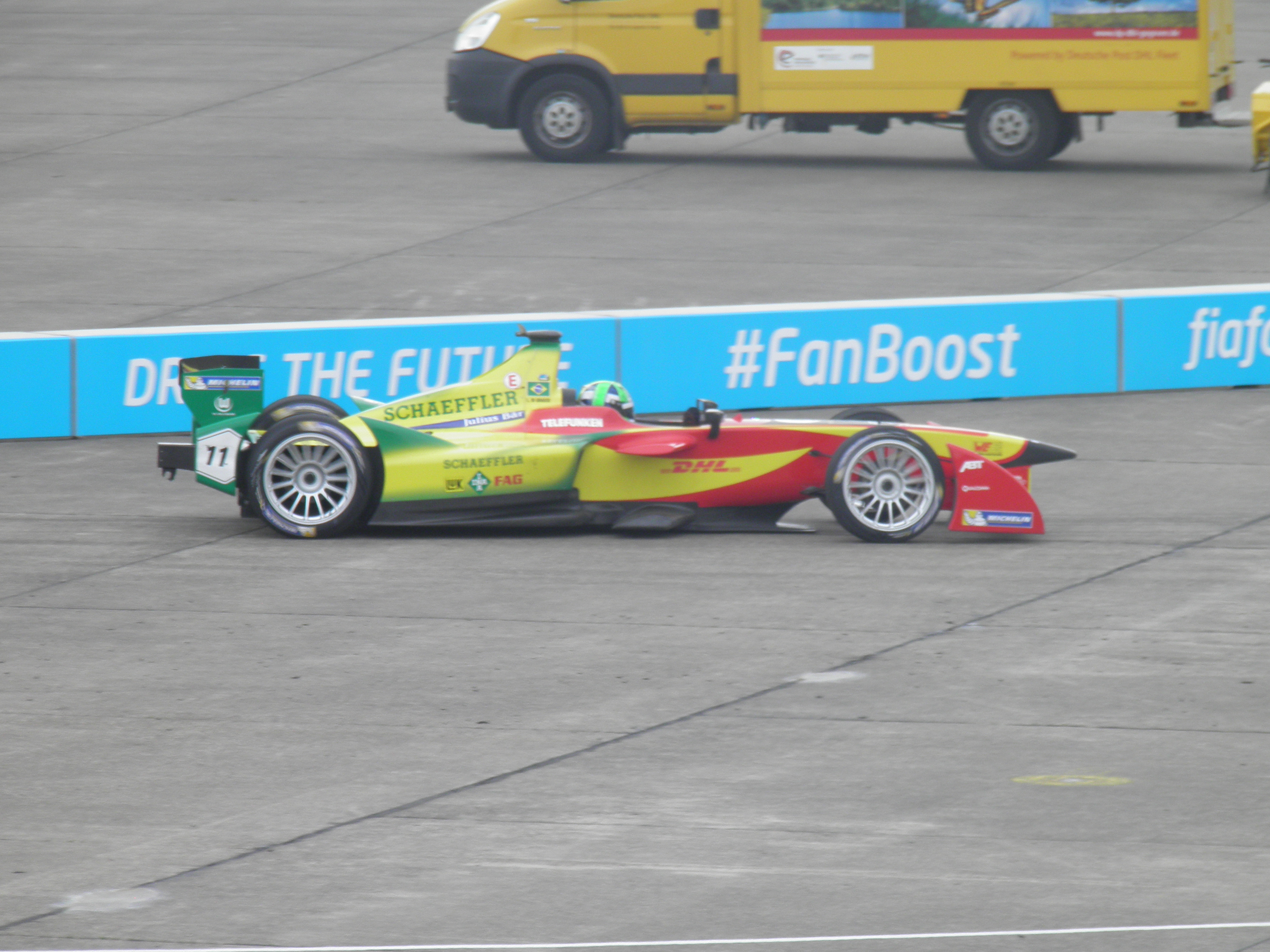 Lucas di Grassi, ABT, driving in Berlin ePrix on May 23, 2015